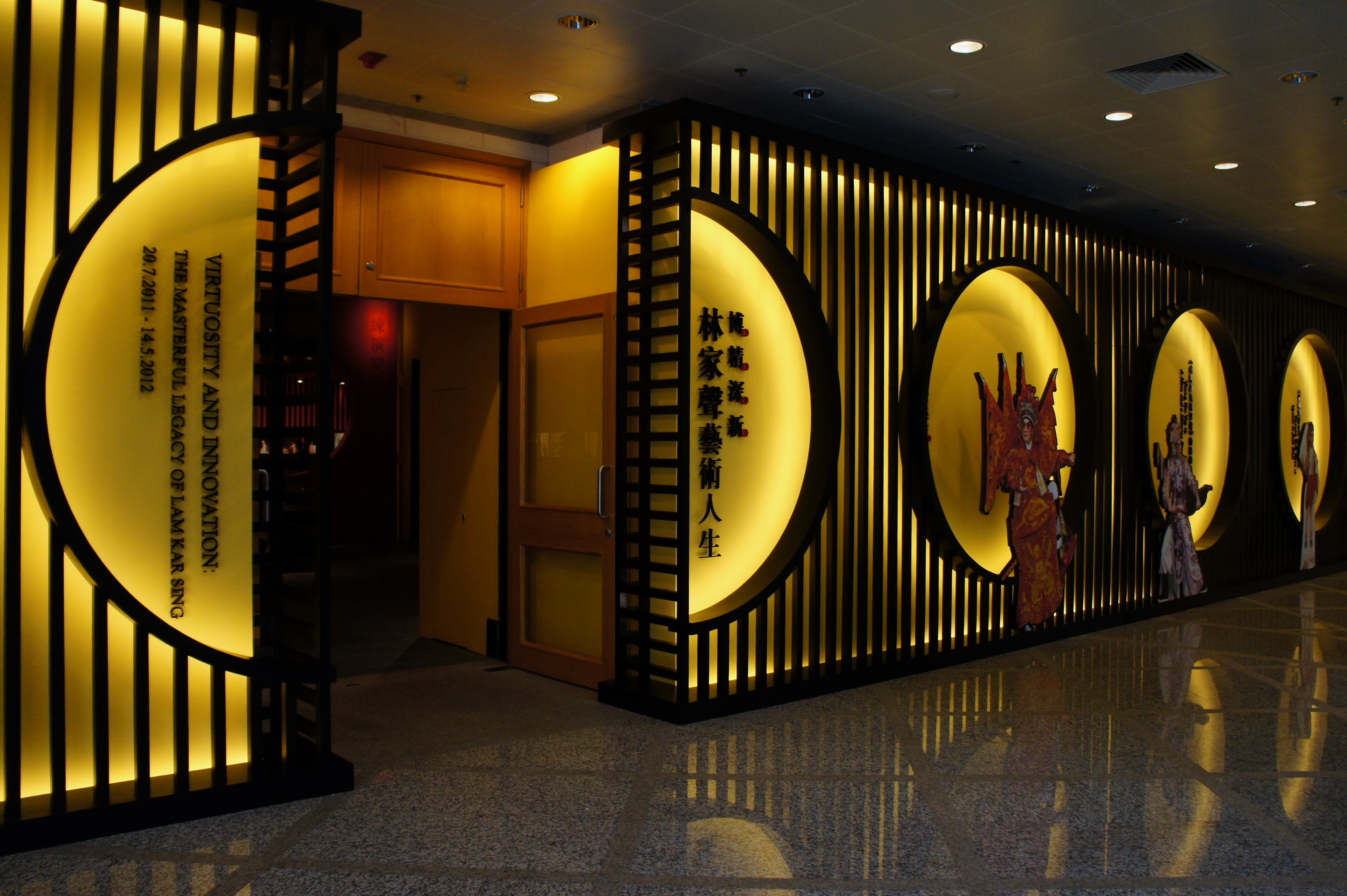 "Virtuosity and innovation - The masterful legacy of Lam Kar Sing" Hong Kong Heritage Museum (Exhibition from 20 July 2011 - 14 May 2012)